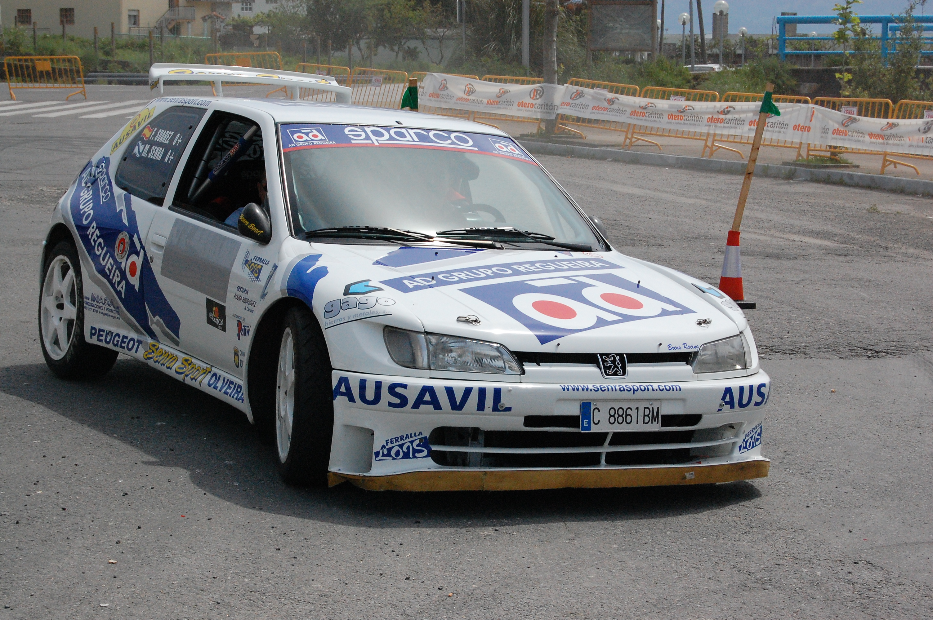 Peugeot 306 Kit Car. Manuel Senra, spanish rally driver.